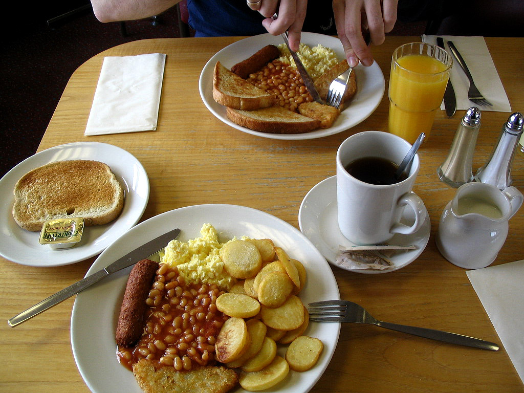 Breakfast at Little Chef. Veggie sausages from the "Linda McCartney" brand.